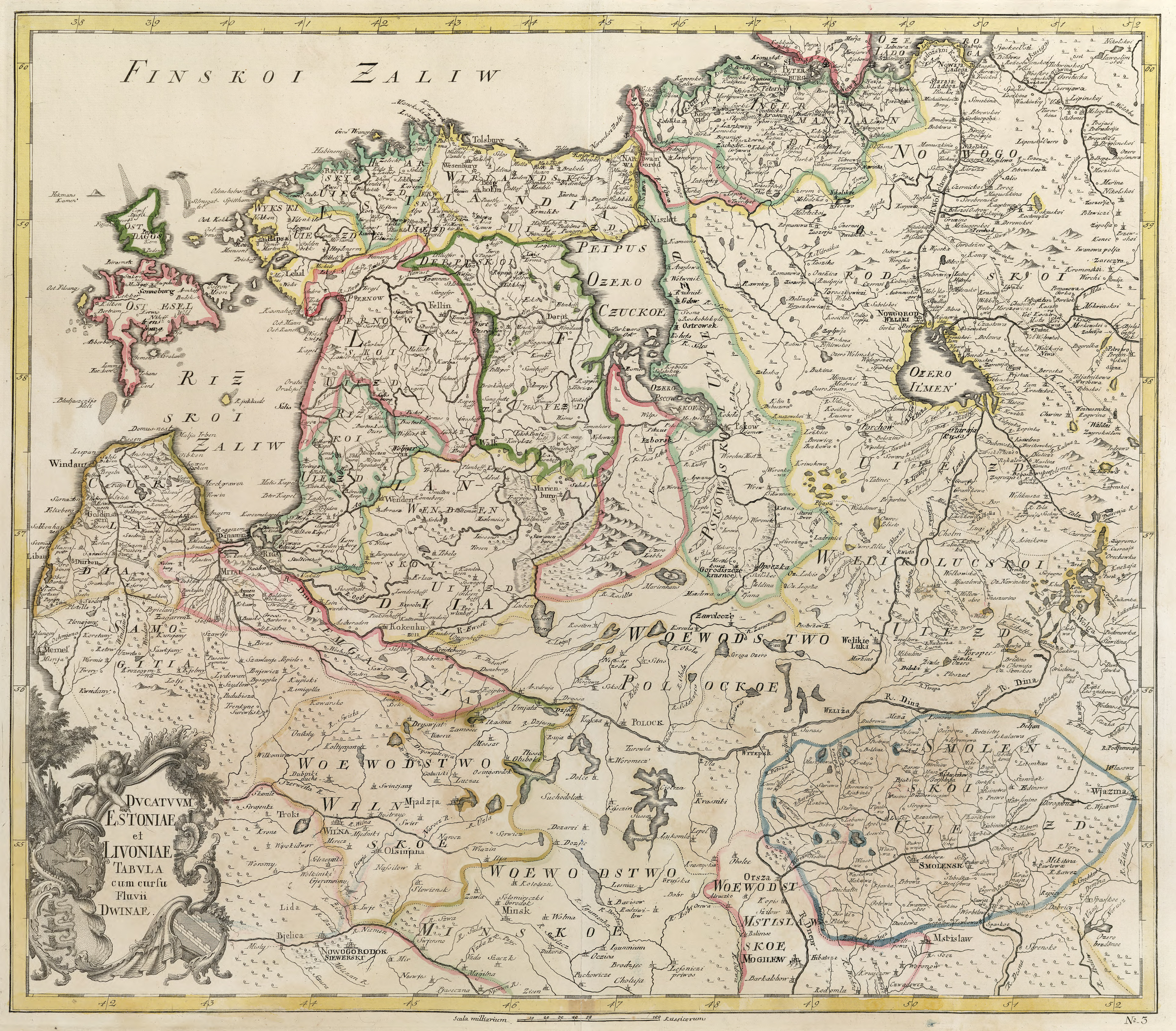 First official geographic atlas of the Russian Empire (1745). Map of Estland and Livland duchies, include Dvina river. In Latin language. Hand-coloured copper engraving.